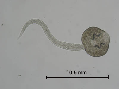 The cercaria of Fascioloides magna